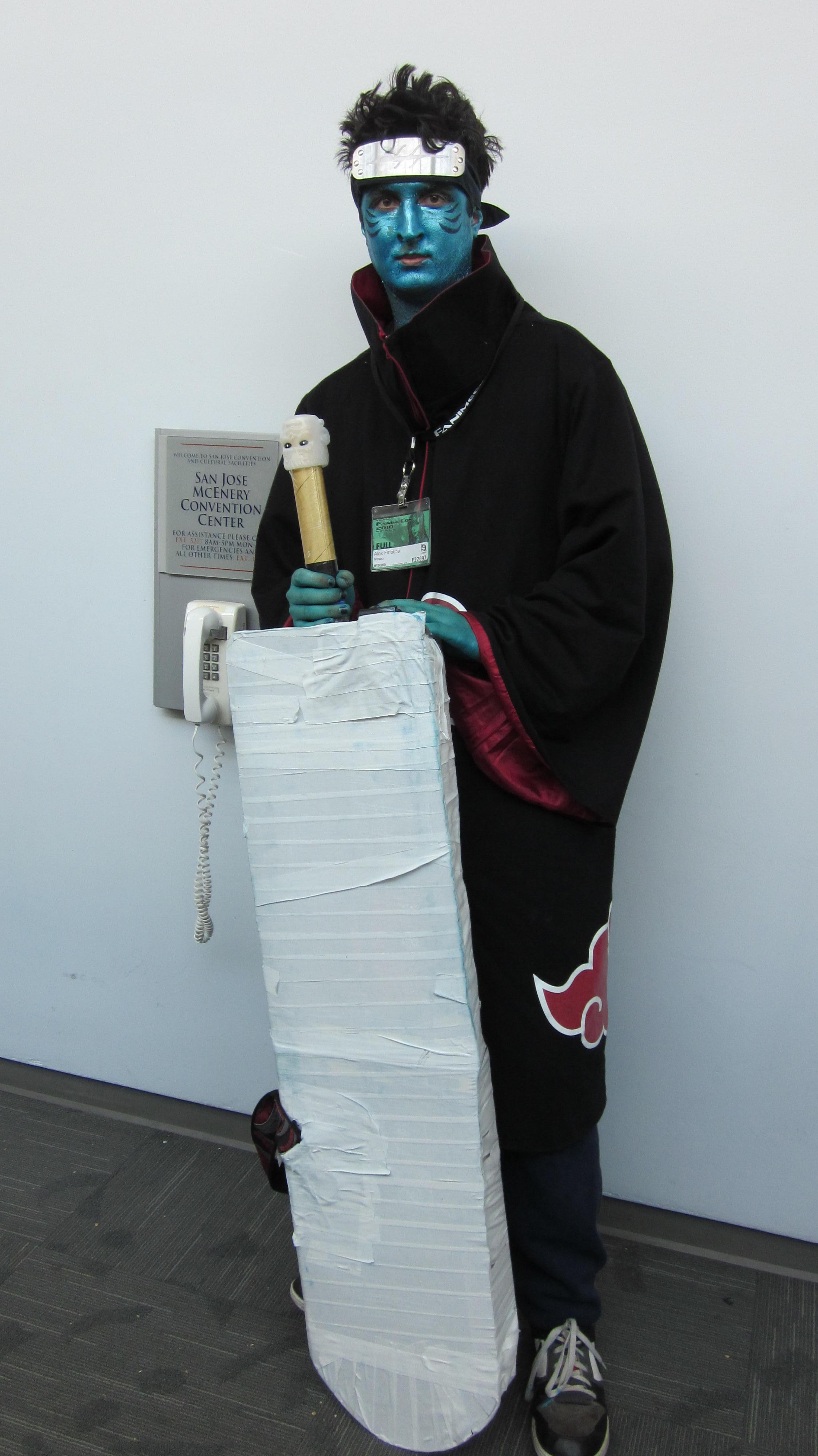 A cosplayer portraying Kisame Hoshigaki from Naruto at FanimeCon 2010 in San Jose, California.